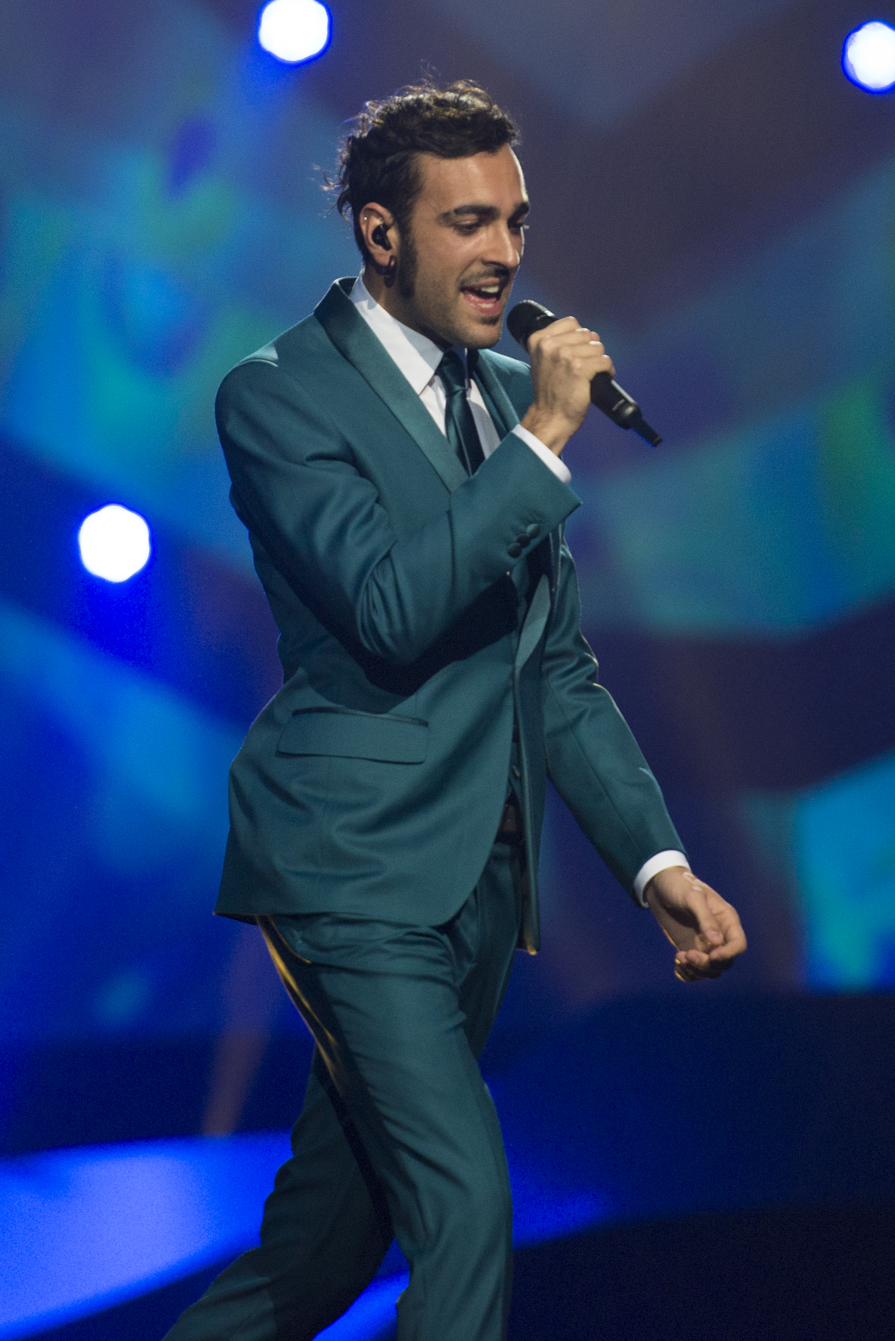 Marco Mengoni representing Italy with the song "L'essenziale" during the first dress rehearsal of the final of the Eurovision Song Contest 2013 in Malmö. (Help translate this text)